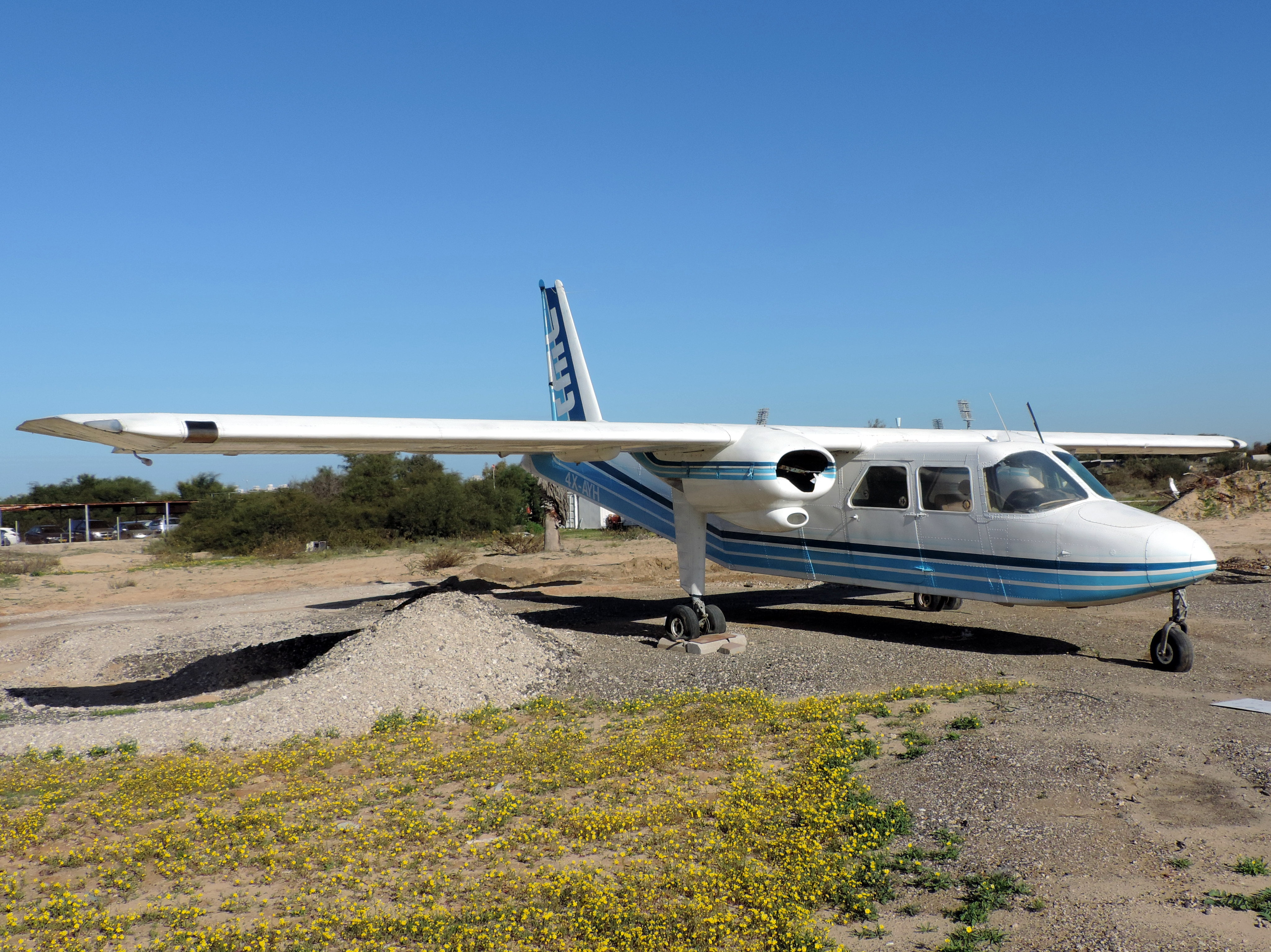 At Rishon LeZion airfield